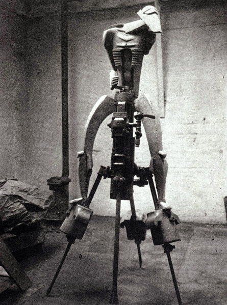 Epstein's 1913 sculpture The Rock Drill in its original form. This work appeared in the An exhibition of the Camden Town Group and Others . Epstein later said "Here is the armed, sinister figure of today and tomorrow. No Humanity, only the terrible Frankenstein's monster we have made ourselves into... later I lost my interest in machinery and discarded the drill. I cast only the upper part of the figure."'[1] 1. ↑ J. Epstein, Let there be sculpture : an autobiography, London 1940, p. 60